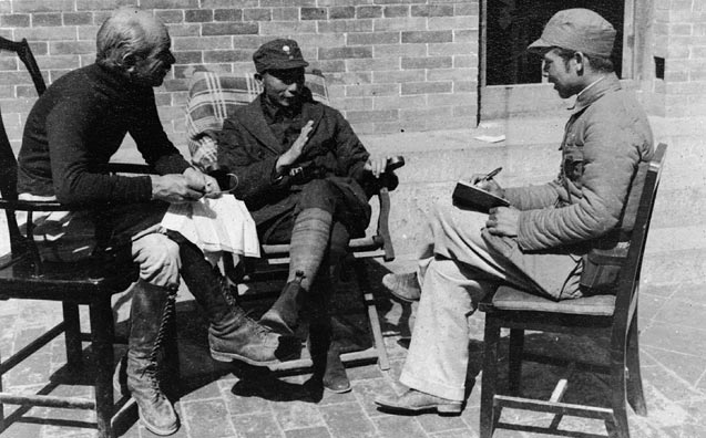 Meeting between Dr. Norman Bethune (left) and Nie Rongzhen (centre), Commander-in-Chief of the Chin-Ch'a-Chi Border Region, 1938 / China